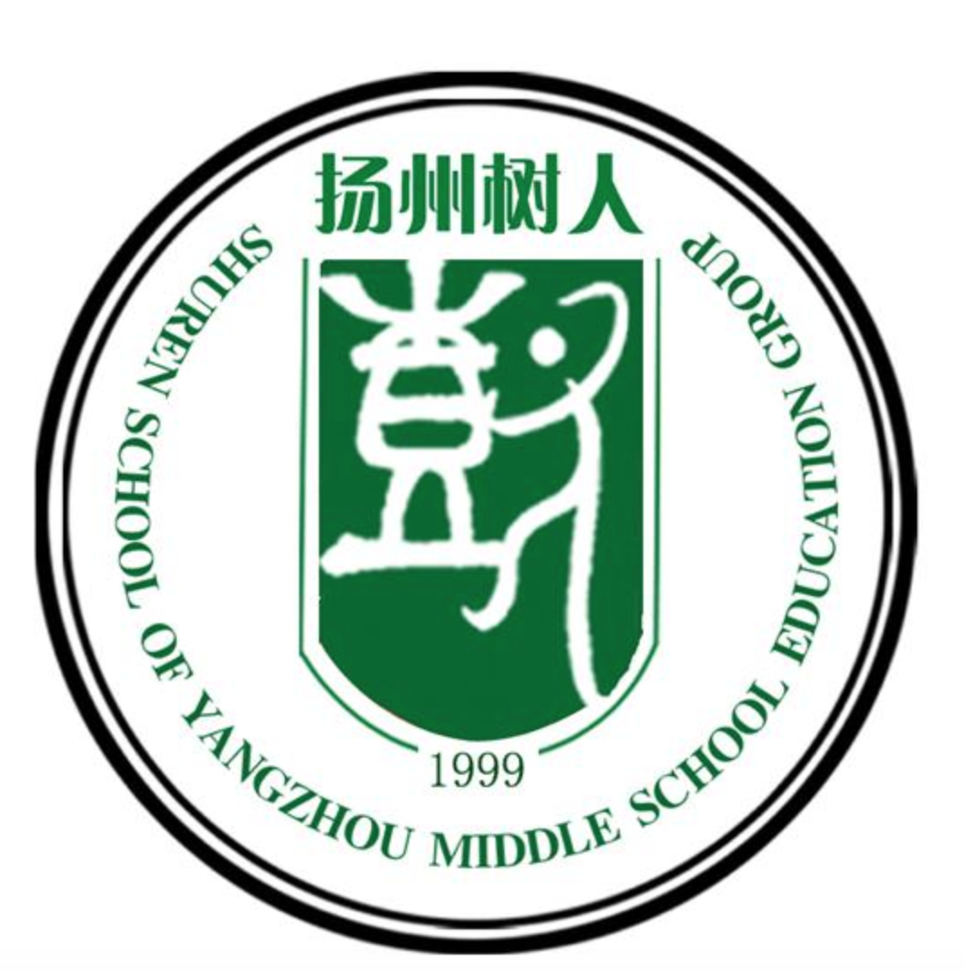 A logo for Shuren School of Yangzhou Middle School Education Group